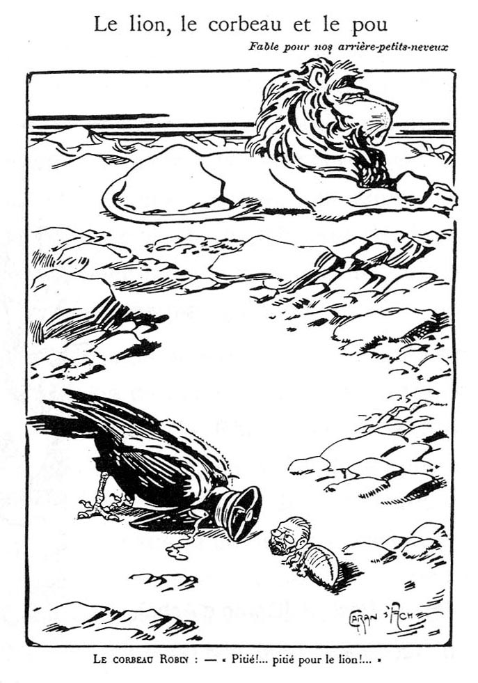 Cartoon on Emile Zola J'accuse !